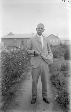 Photograph of Charles Weston at Yarralumla nursery